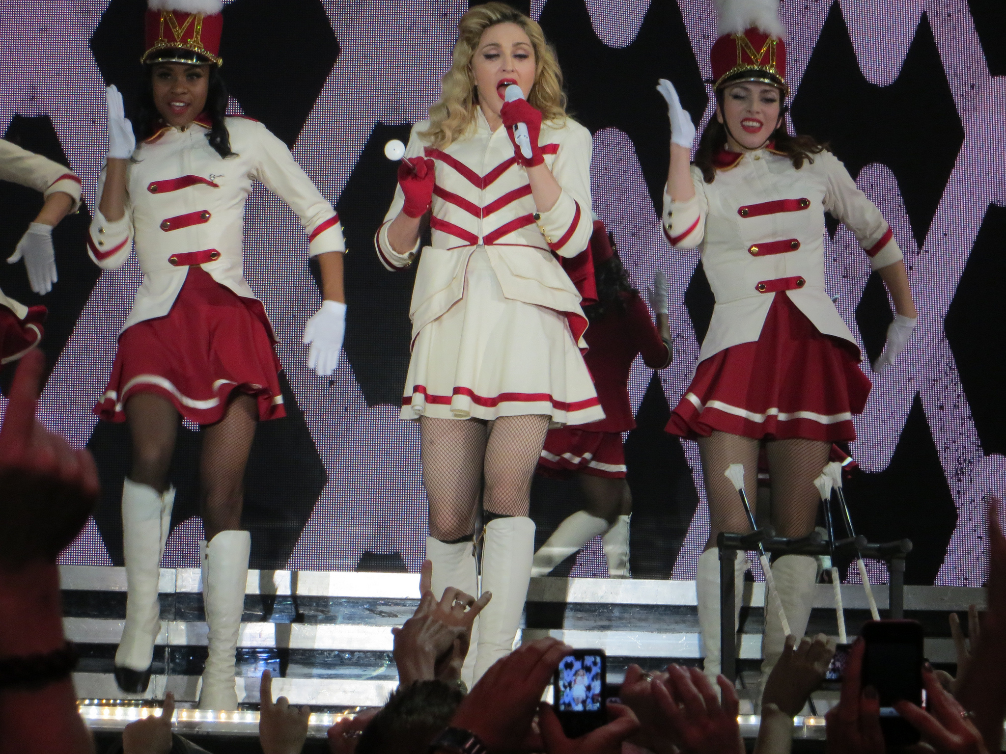 Madonna - MDNA World Tour 2012 - Dallas, TX 10/21/12